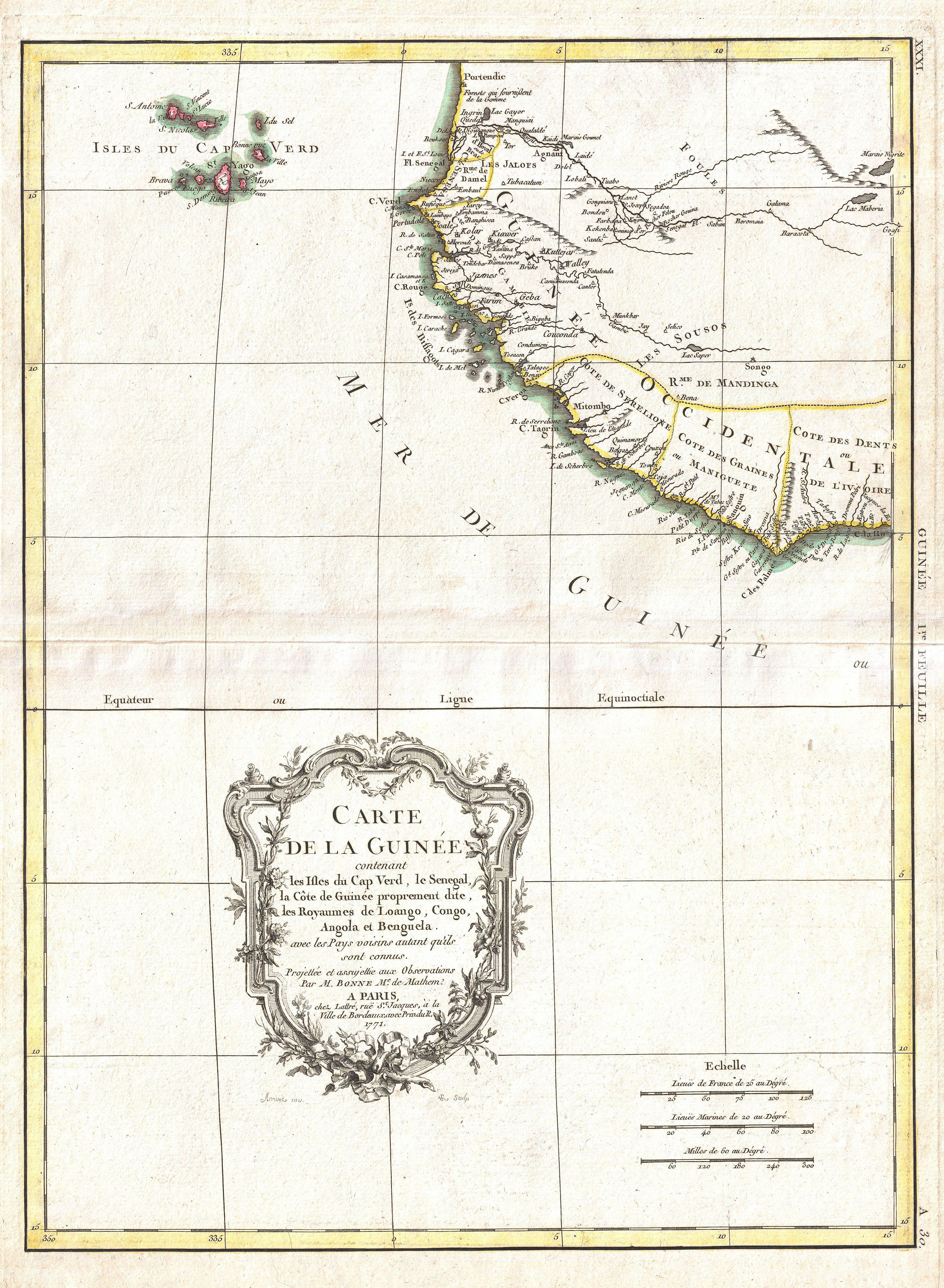 A beautiful example of Rigobert Bonne's c. 1770 decorative map of western Africa. Covers from the Cape Verde Islands eastward to the coasts of Africa and the western mouth of the Niger River. Includes the modern day nations of Mauritania, Senegal, Gambia, Guinea-Bissau, Guinea, Sierra Leone, Liberia and Cote d'Ivoire. A decorative title cartouche appears in the lower left hand quadrant. Drawn by R. Bonne in 1770 for issue as plate no. A 30 in Jean Lattre's 1776 issue of the Atlas Moderne .